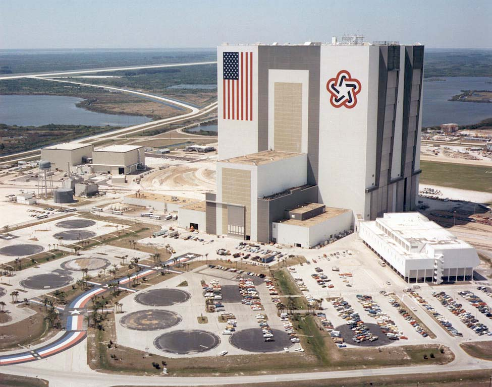 Aerial view of Kennedy Space Center's Vehicle Assembly Building, with vertical U.S. flag and the emblem of the 1976 bicentennial celebrations (which remained in place until 1998[1]).